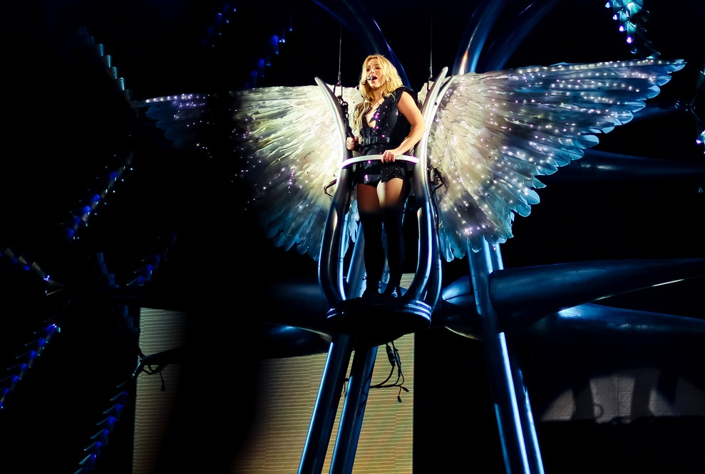 Britney Spears performing "Till the World Ends" at 2011's Femme Fatale Tour live in Ukraine.